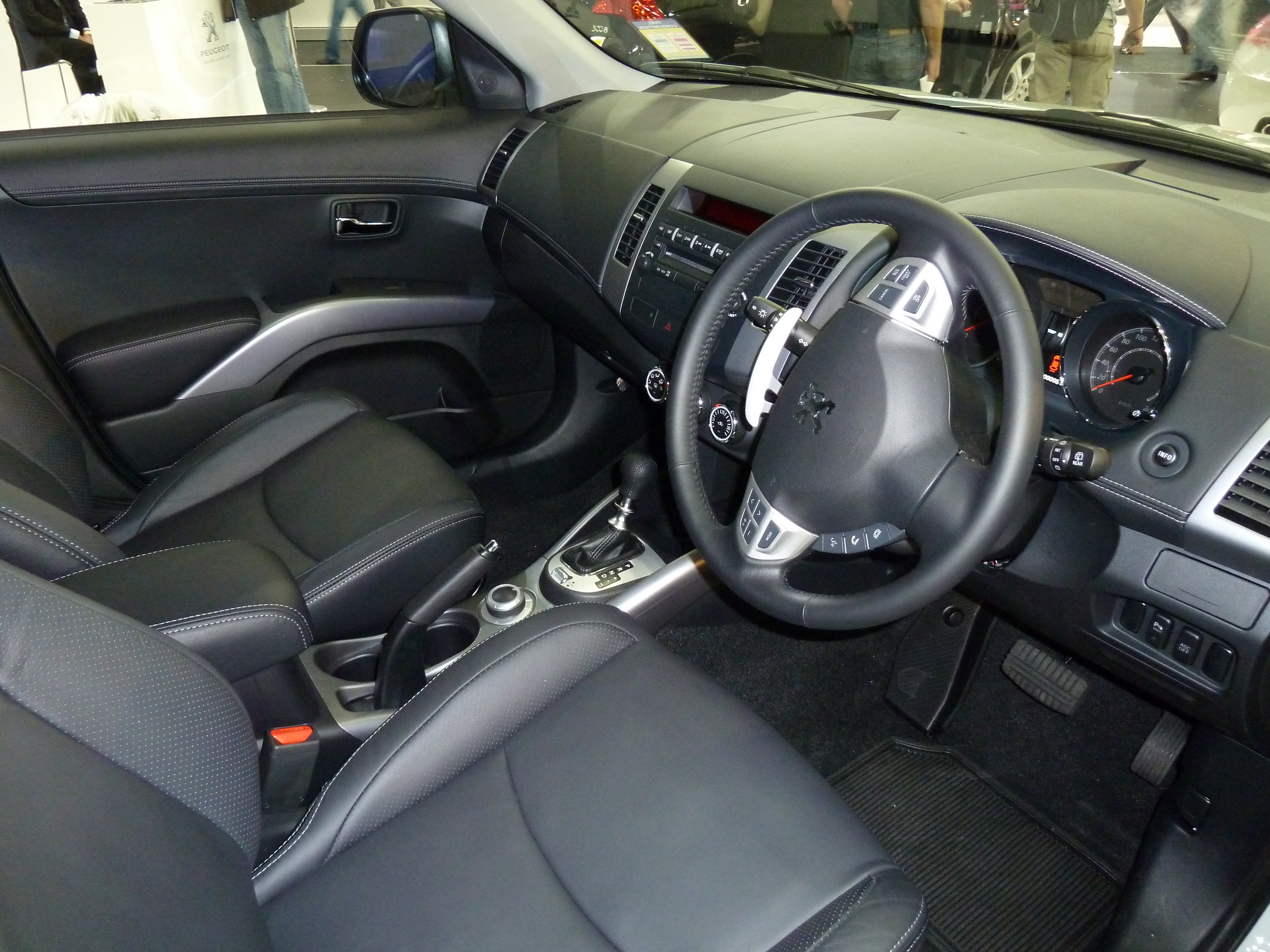 2010 Peugeot 4007 SV HDi wagon. Photographed at the 2010 Australian International Motor Show, Sydney, New South Wales, Australia.